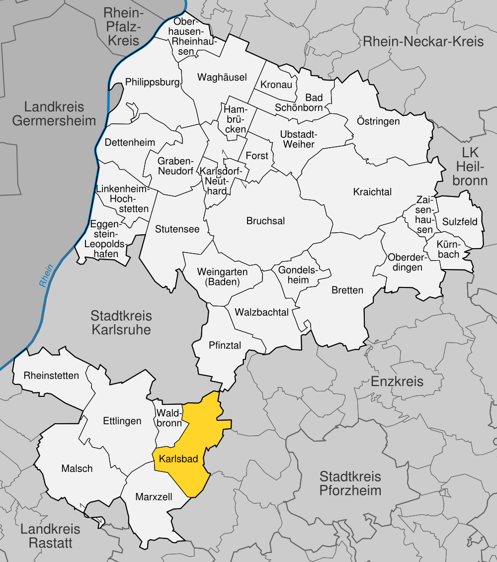 position of Karlsbad within distict of Karlsruhe, Baden-Württemberg, Germany